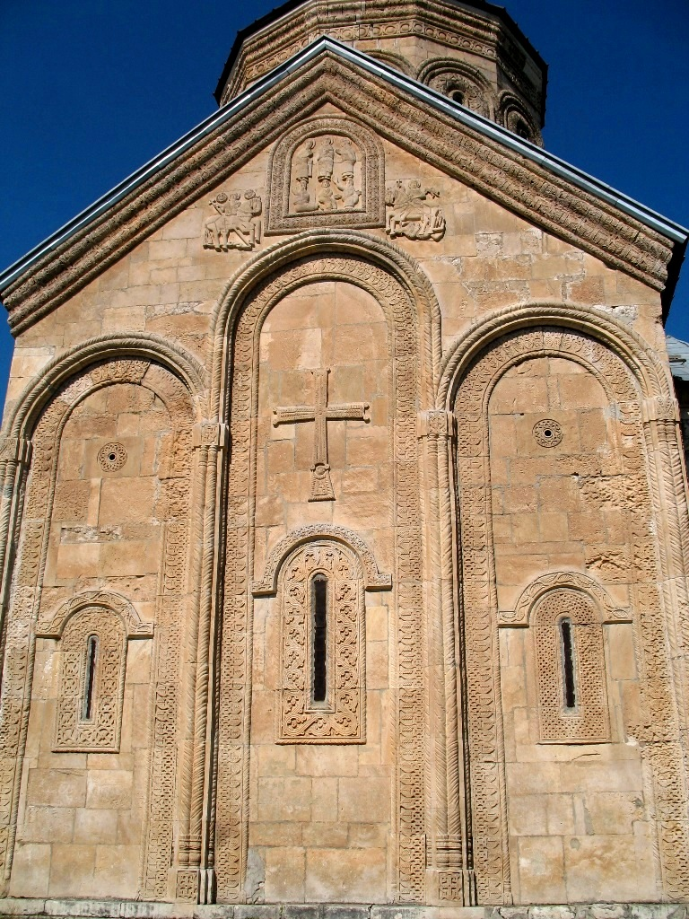 Nikortsminda Cathedral